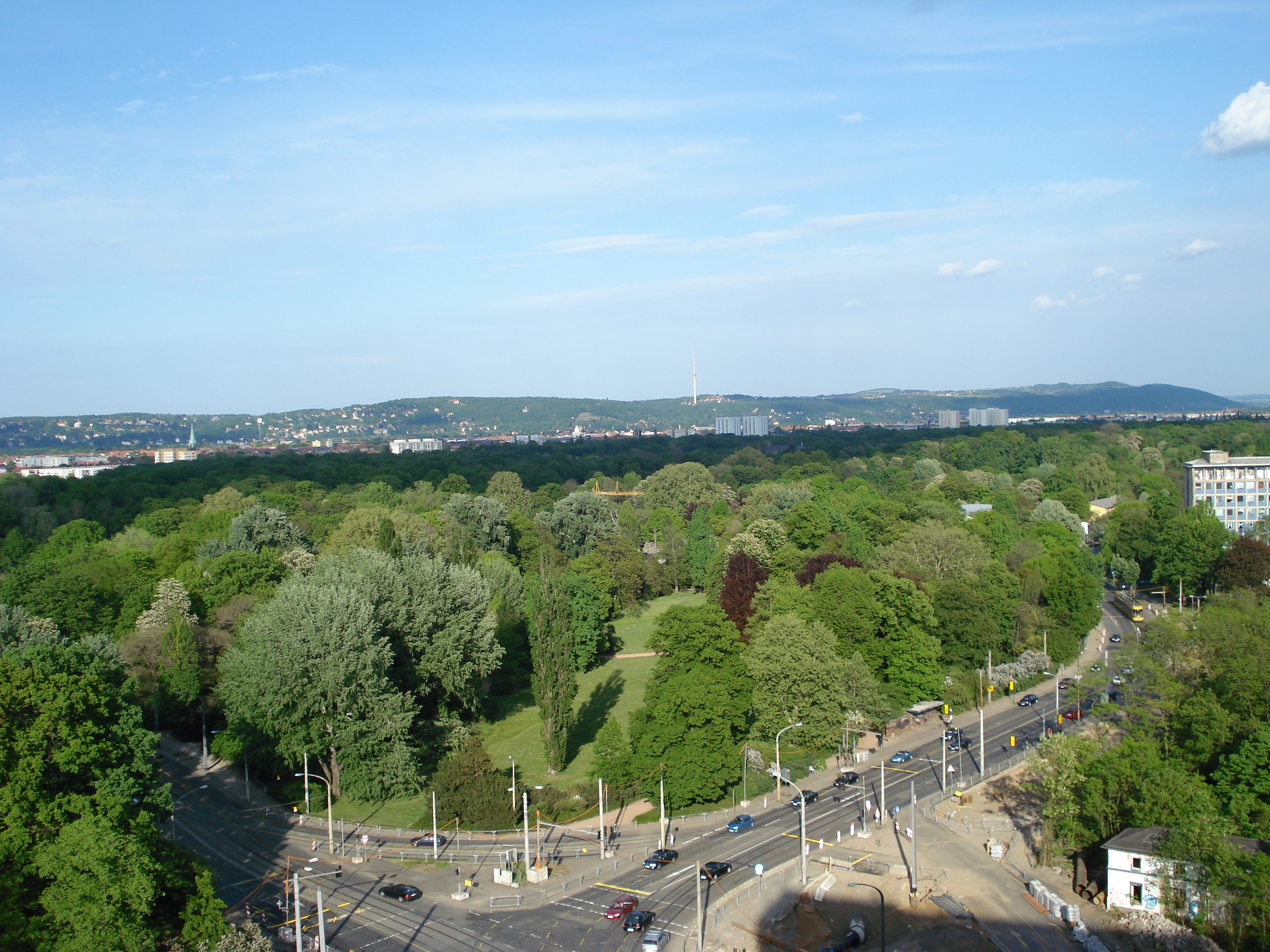 The area of the City Park Dresden (Großer Garten Dresden)